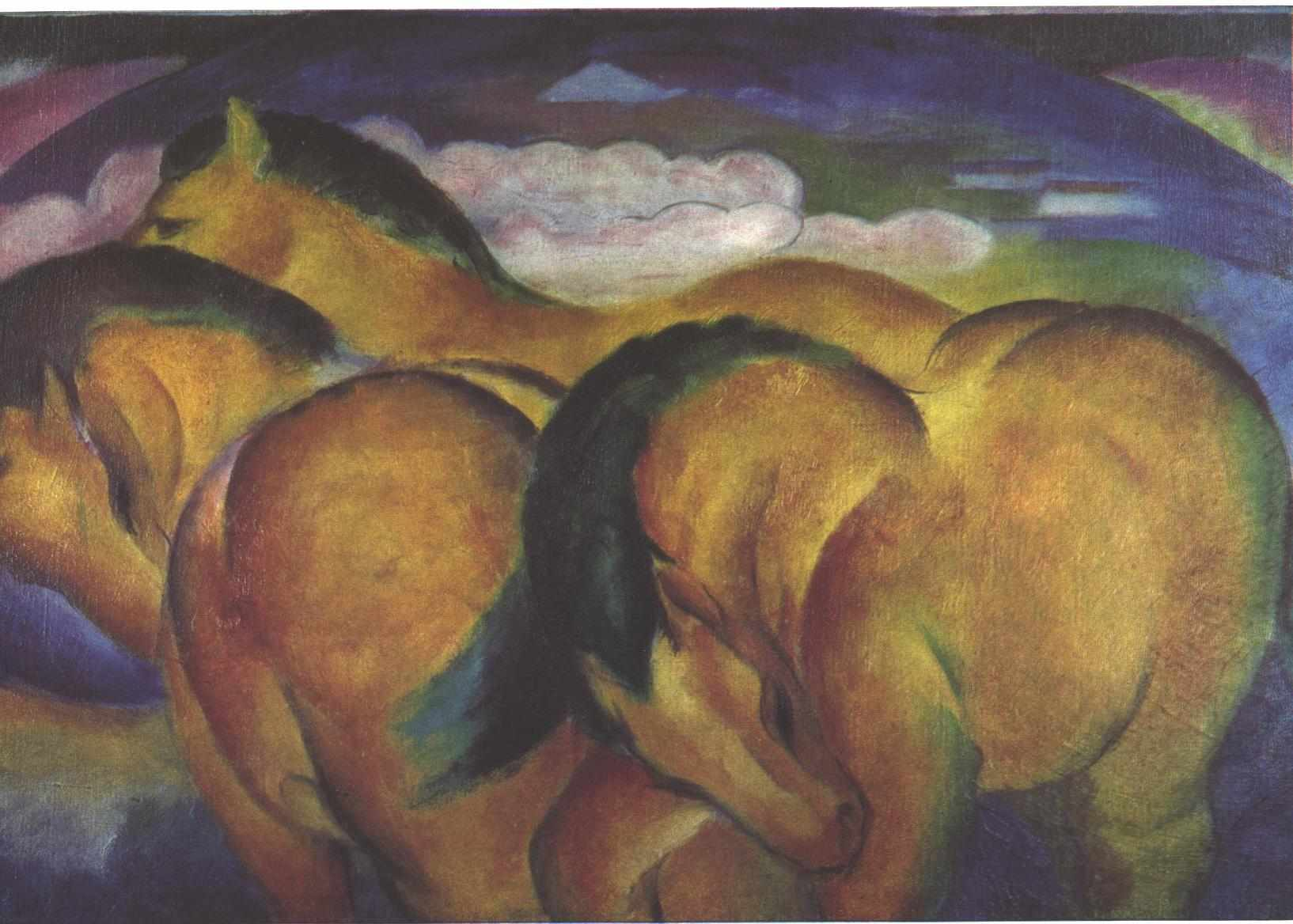 Little yellow horses